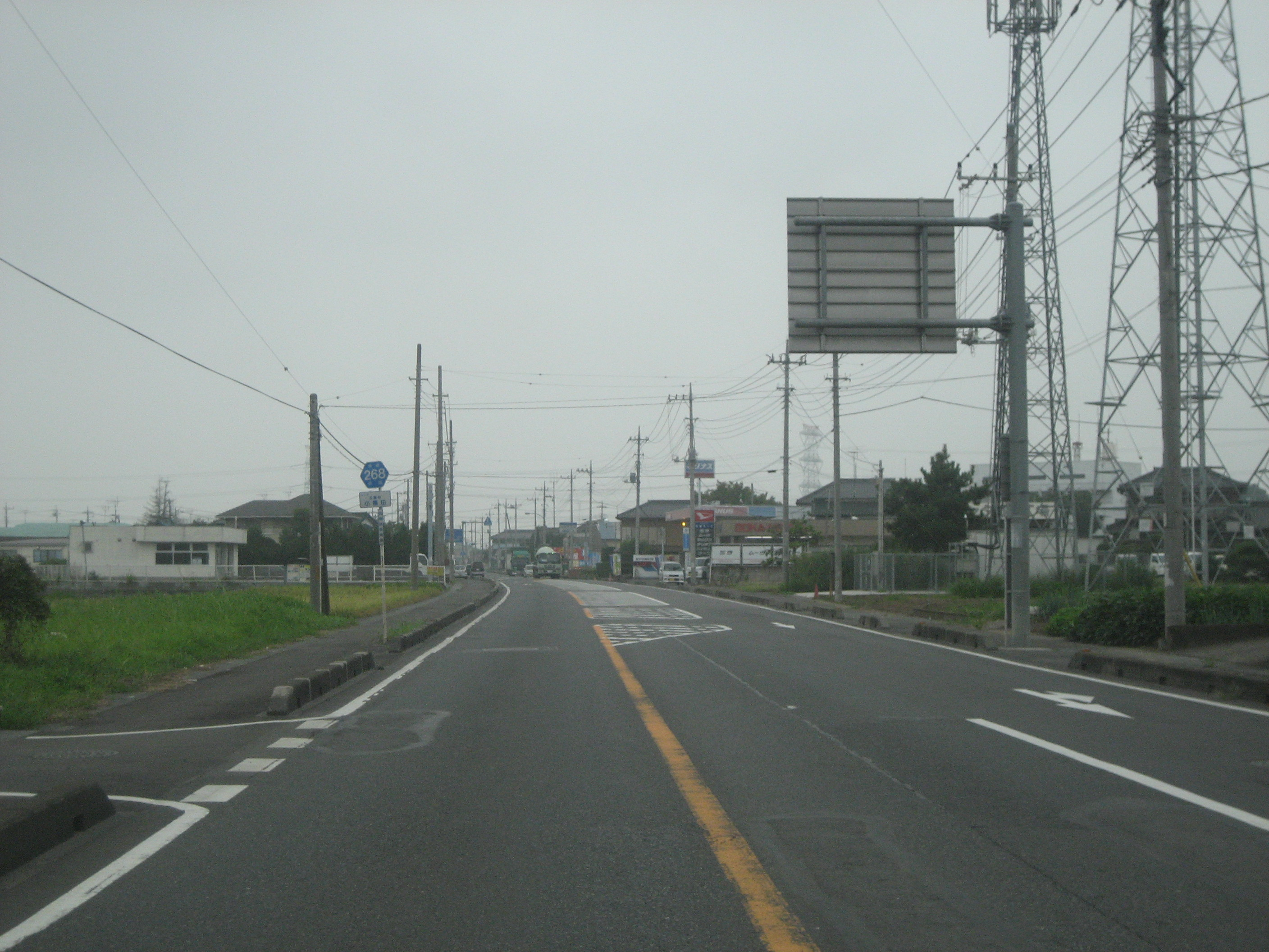 The Ibaraki Prefectural Road Route 268 in Goka Town